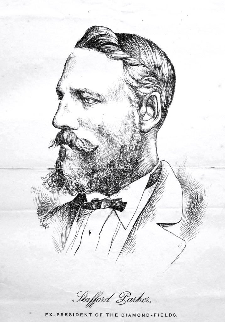 Stafford Parker - Ex President of the Diggers Republic of Klipdrift. Zingari 1872 5March - Vol II Schroeder